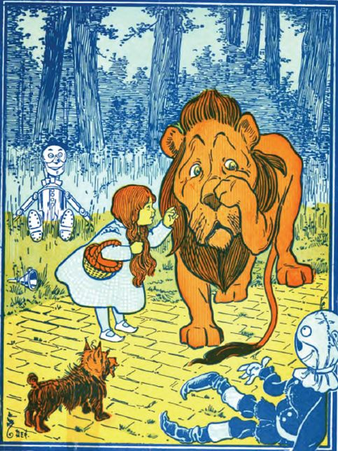 An illustration by W. W. Denslow from The Wonderful Wizard of Oz, also known as The Wizard of Oz, a 1900 children's novel by L. Frank Baum.